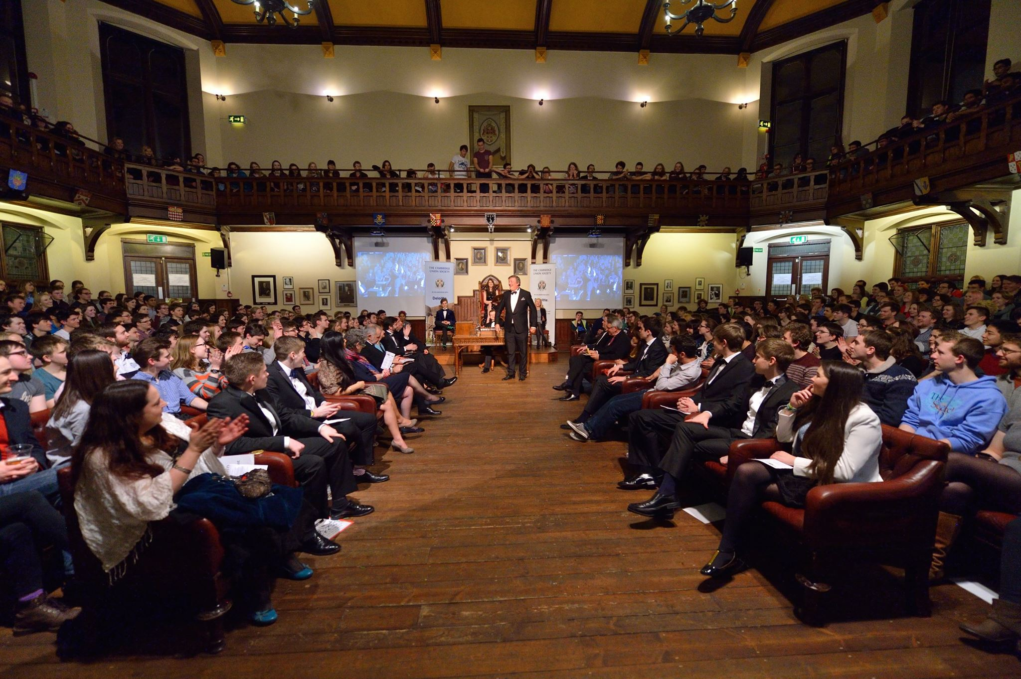 The Main Chamber of the Cambridge Union, featuring Stephen Fry on 'This House Would Disestablish the Church of England'.